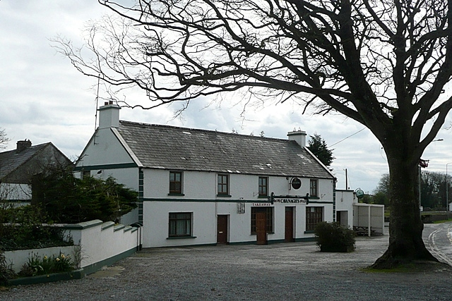 Turloughmore Cranaghs, one of just three pubs in the village on the N63.